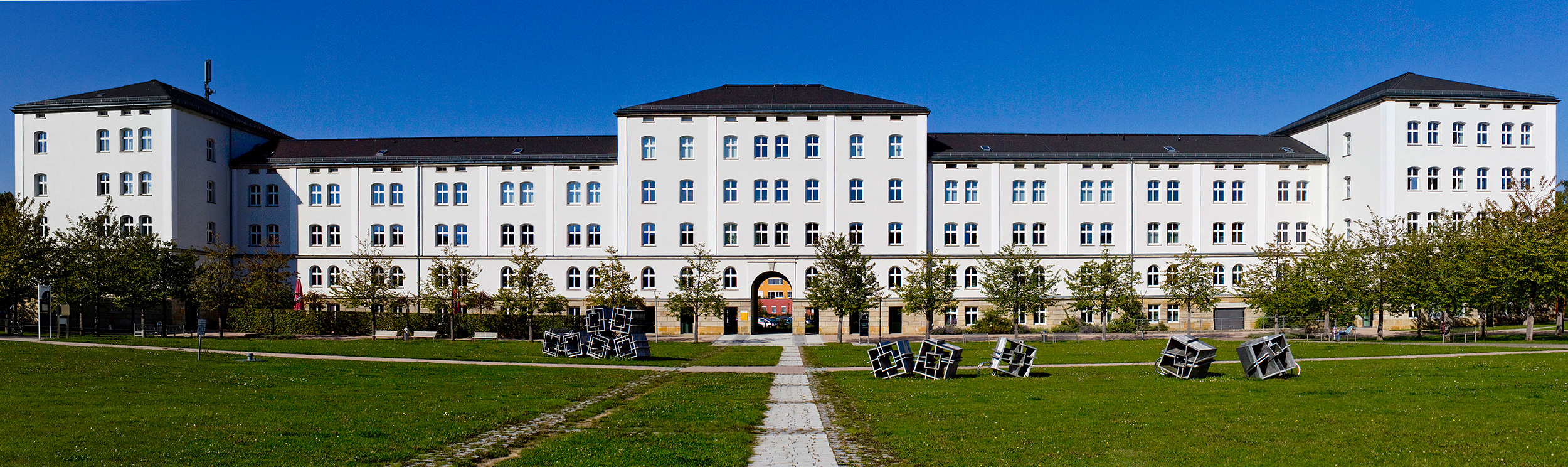 Department of Electrical Engineering and Information Technology at the University of Applied Sciences (FH) Amberg-Weiden